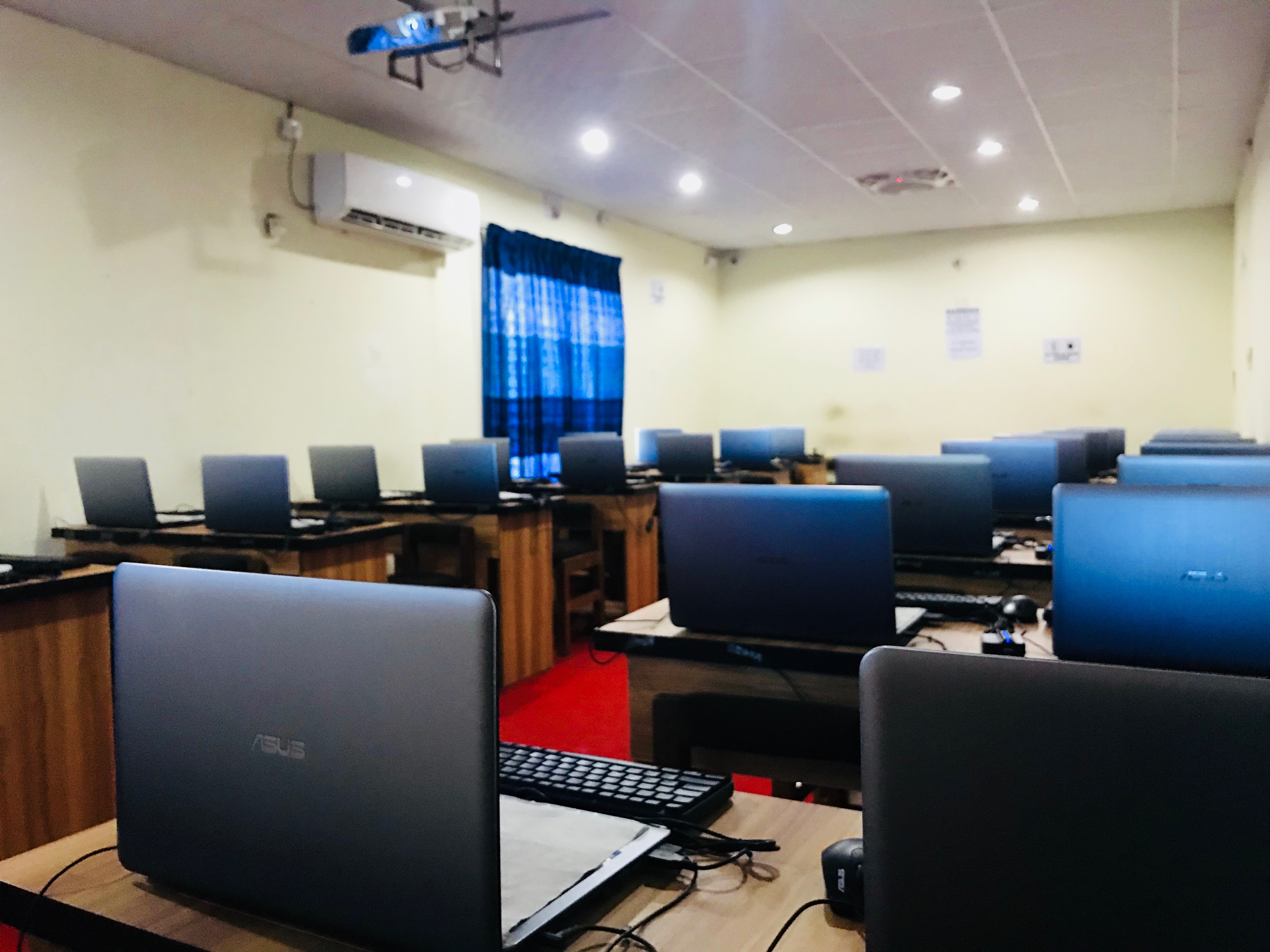 Computer Software Lab of Mangrove Institute